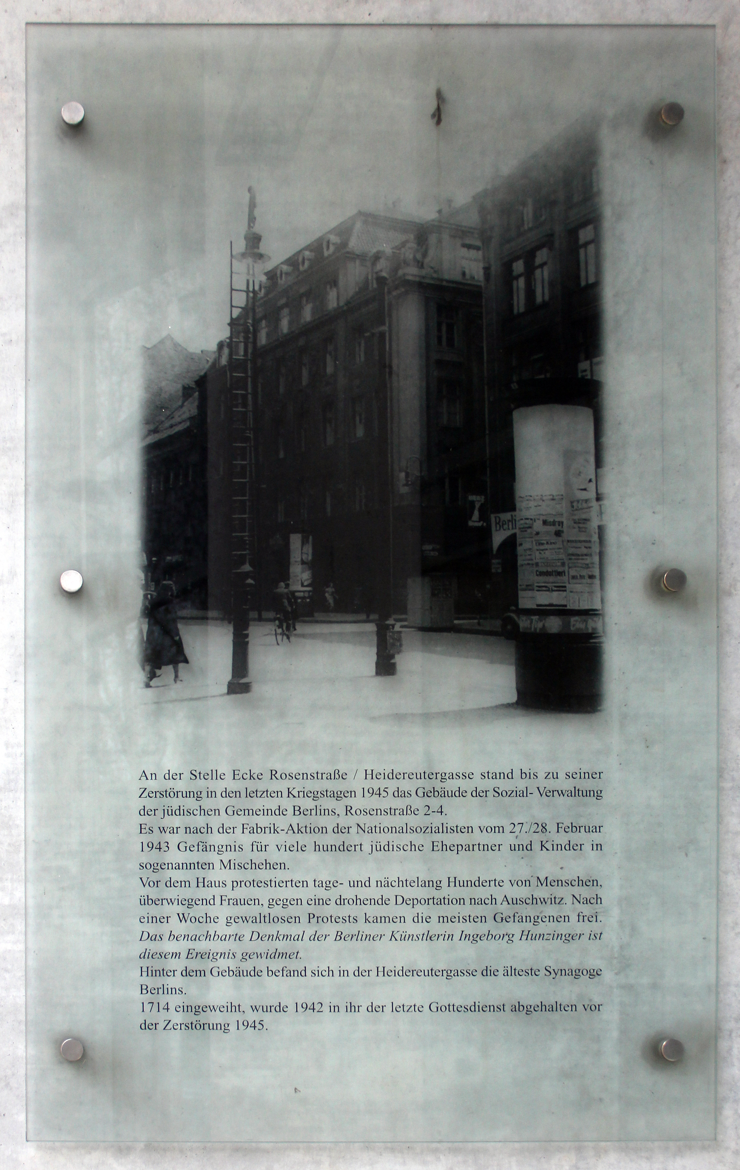 Memorial plaque, Sozial-Verwaltung der jüdischen Gemeinde, Rosenstraße 2, Berlin-Mitte, Germany